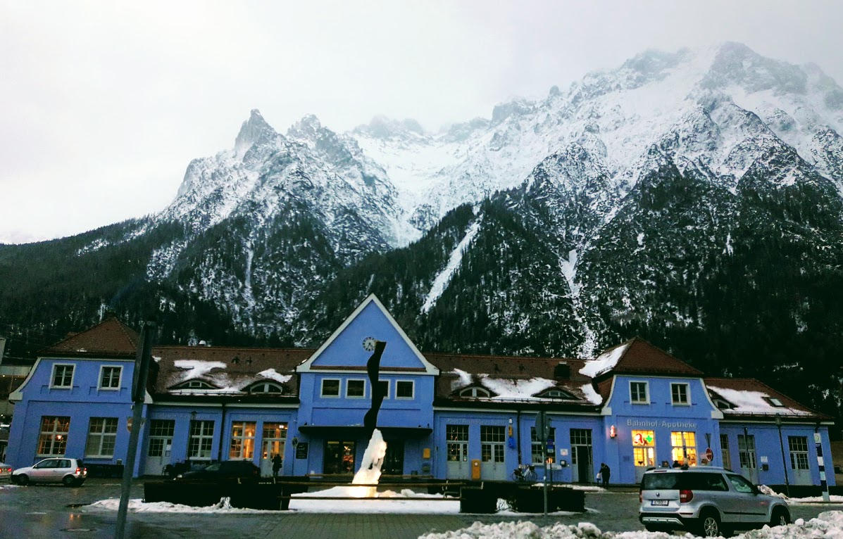 Mittenwald (Bavaria) Station Building, with Westliche Karwendelspitze in the background